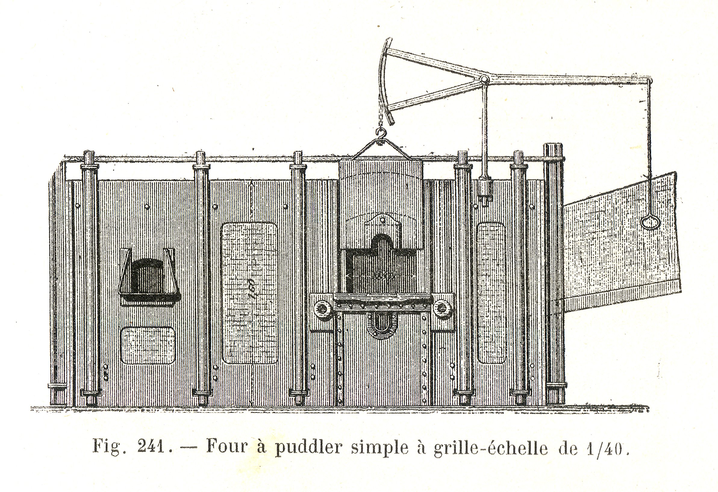 Puddling oven. Image scanned in : Manuel de la métallurgie du Fer, Tome 2, par Adolf Ledebur, édition française traduite par Barbary de Langlade revu et annoté par F.Valton, publié par Librairie polytechnique Baudry et Cie, 1895, page 369.